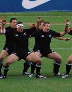 All Black haka before a match against France, 18 November 2006. The All Blacks won the match 23-11.